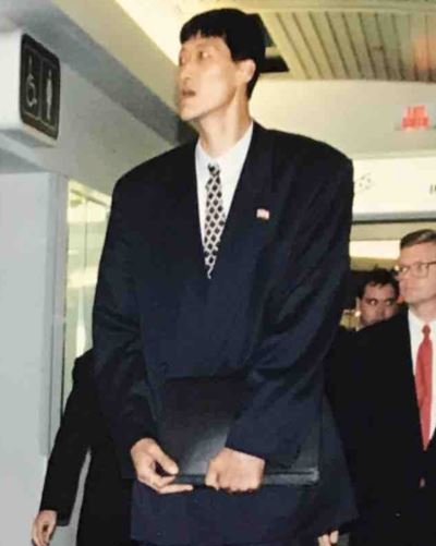 North Korean basketball player Ri Myoung-Hun arriving at Ottawa International Airport in May 1997.